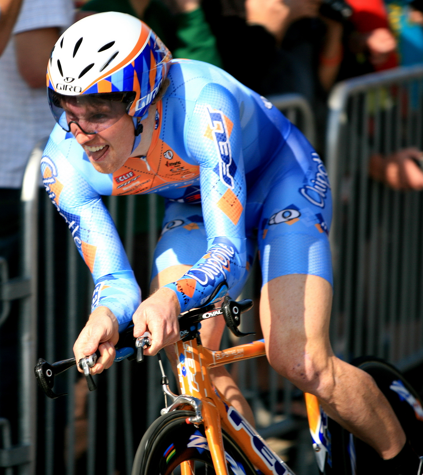 Tyler Farrar at the Prologue of the Tour of California in Palo Alto